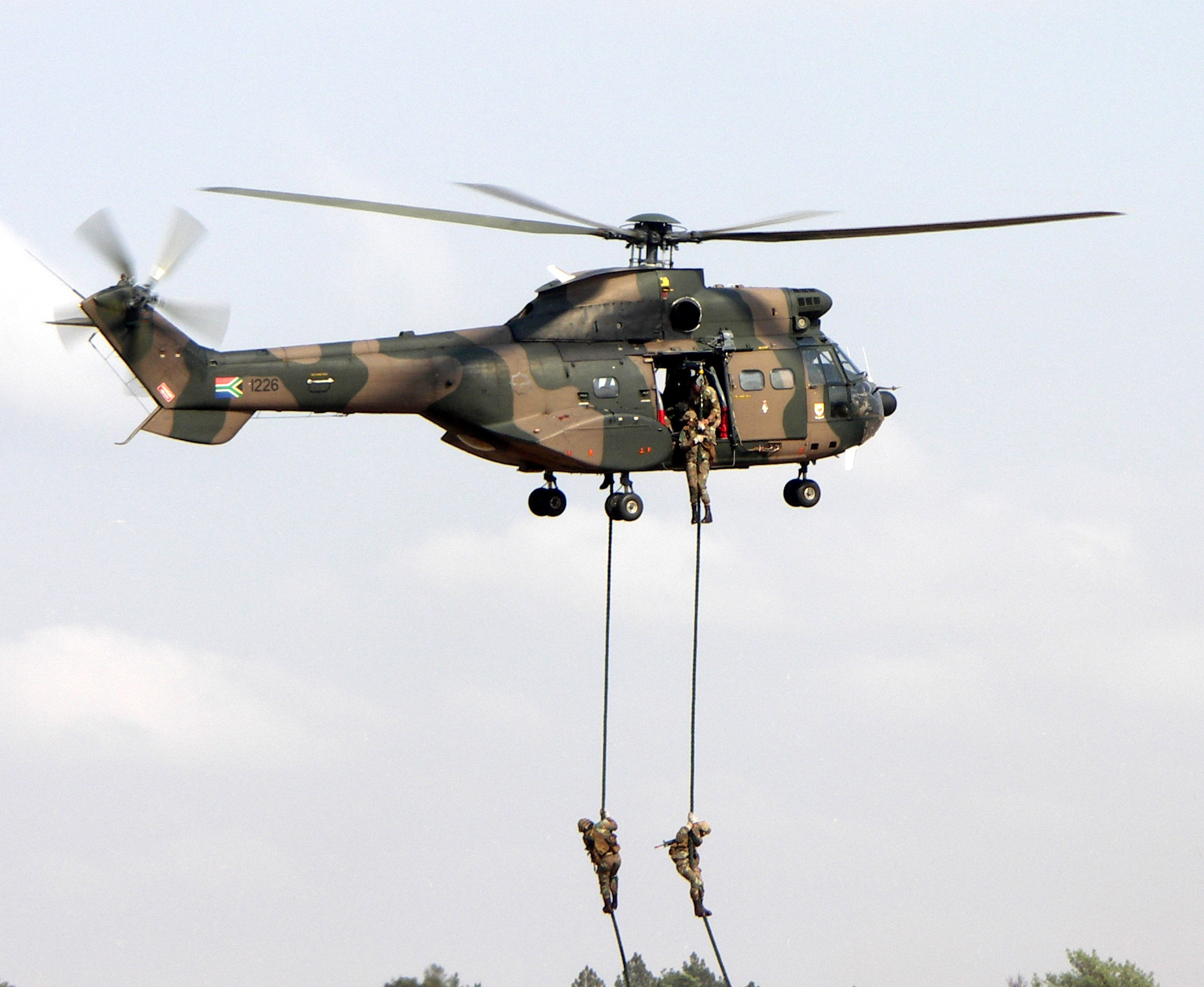 Fast roping being performed by the South African Air Force from both sides doors of an Atlas Oryx helicopter